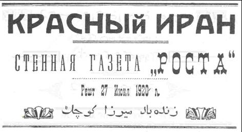 A "wall newspaper" named "Roosta". June 27 1920 in the honor of Mirza Koochak Khan after the announcement of the Soviet Republic Of Gilan.